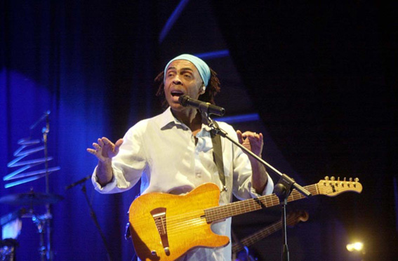 Brazilian musician Gilberto Gil during the concert held to Umbria Jazz (Perugia - Italy)